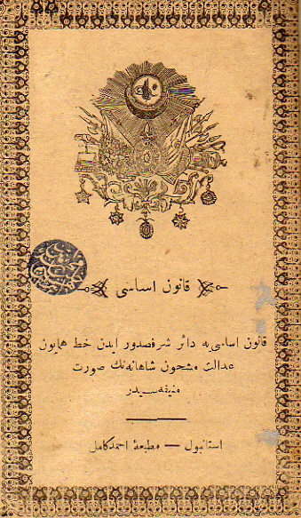 The first page of Ottoman constitution of 1876 (Turkish: Kanûn-ı Esâsî) of the 1st Constitutional Era of the Ottoman Empire, inured in 23 December 1876, during the reign of Sultan Abdulhamid II.